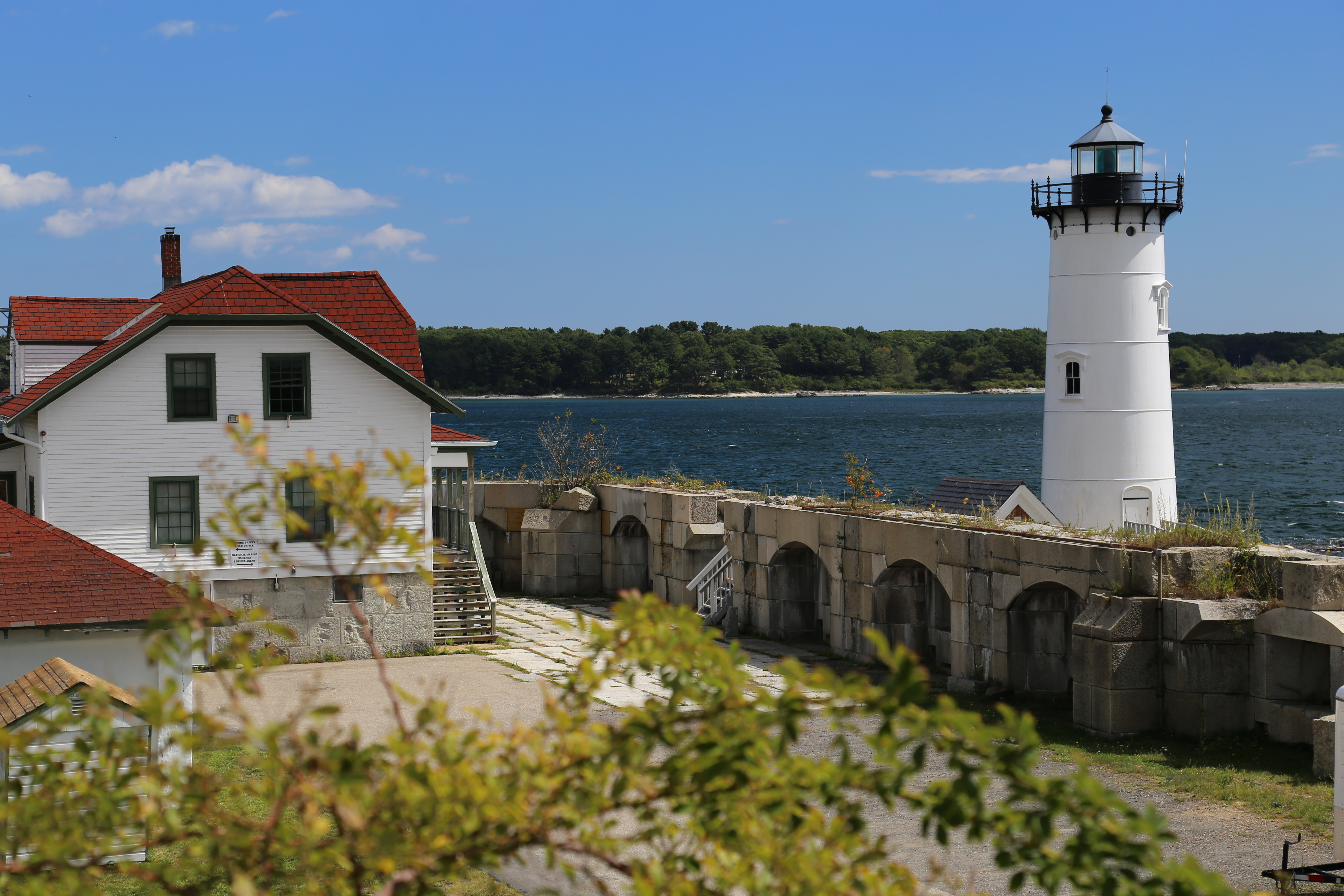 This photo shows the light house that guards safe admission to the Piscataqua River as well as directing large tankers that fuel the electric co which is just up the river and large vessels carying Chilian salt to use on the roads in the winter.